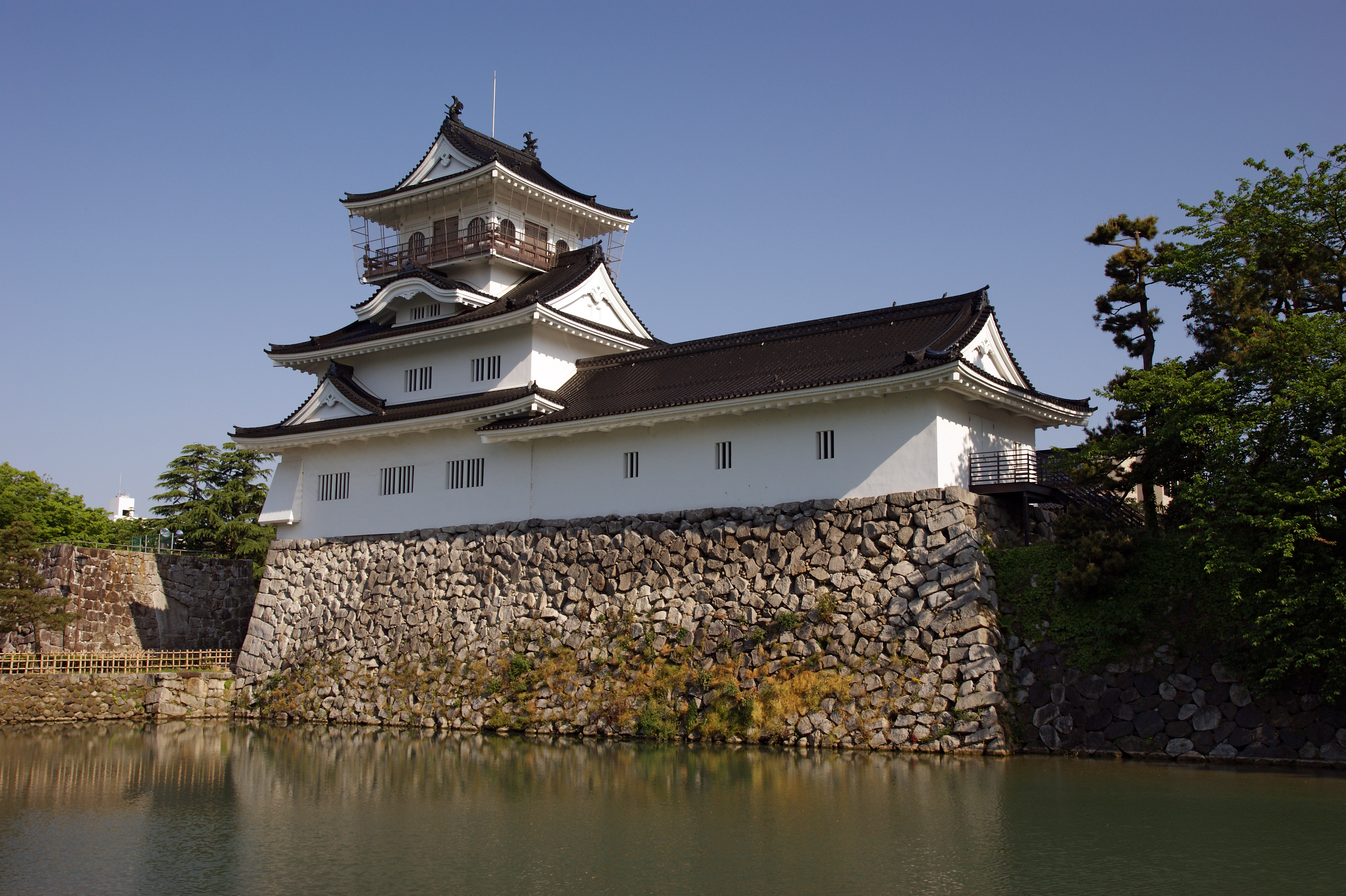 Toyama Municipal Folk Museum in Toyama, Toyama prefecture, Japan